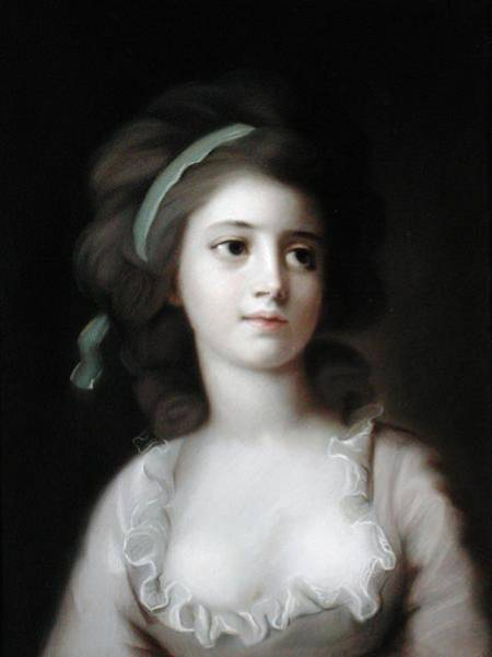 The auction house Sztuka considered the sitter to not be Sofie Potocka, but rather Helena née Massalska, a wife of Wincenty Potocki. Lived 1766-1822. She was mistress to Jozef Anton Poniatowski (1763-1813), a nephew of the King of Poland. [1]